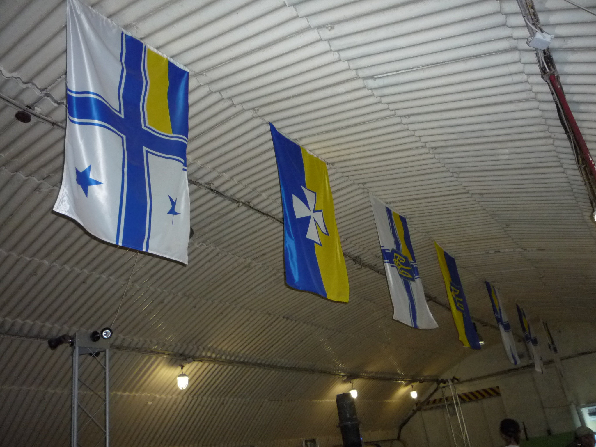 Некоторые из флагов ВМСУ. Фото из музея в Балаклаве.